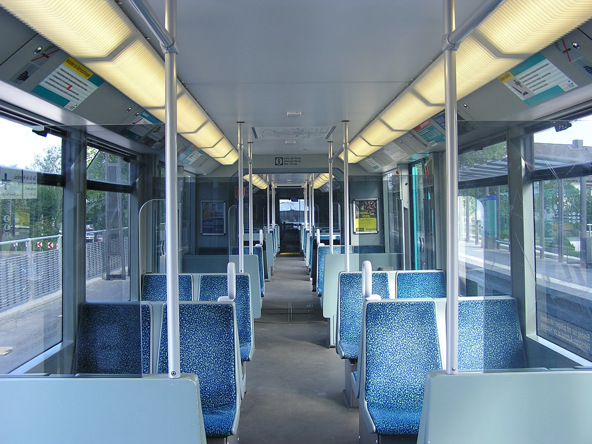 Interior of an U4 car